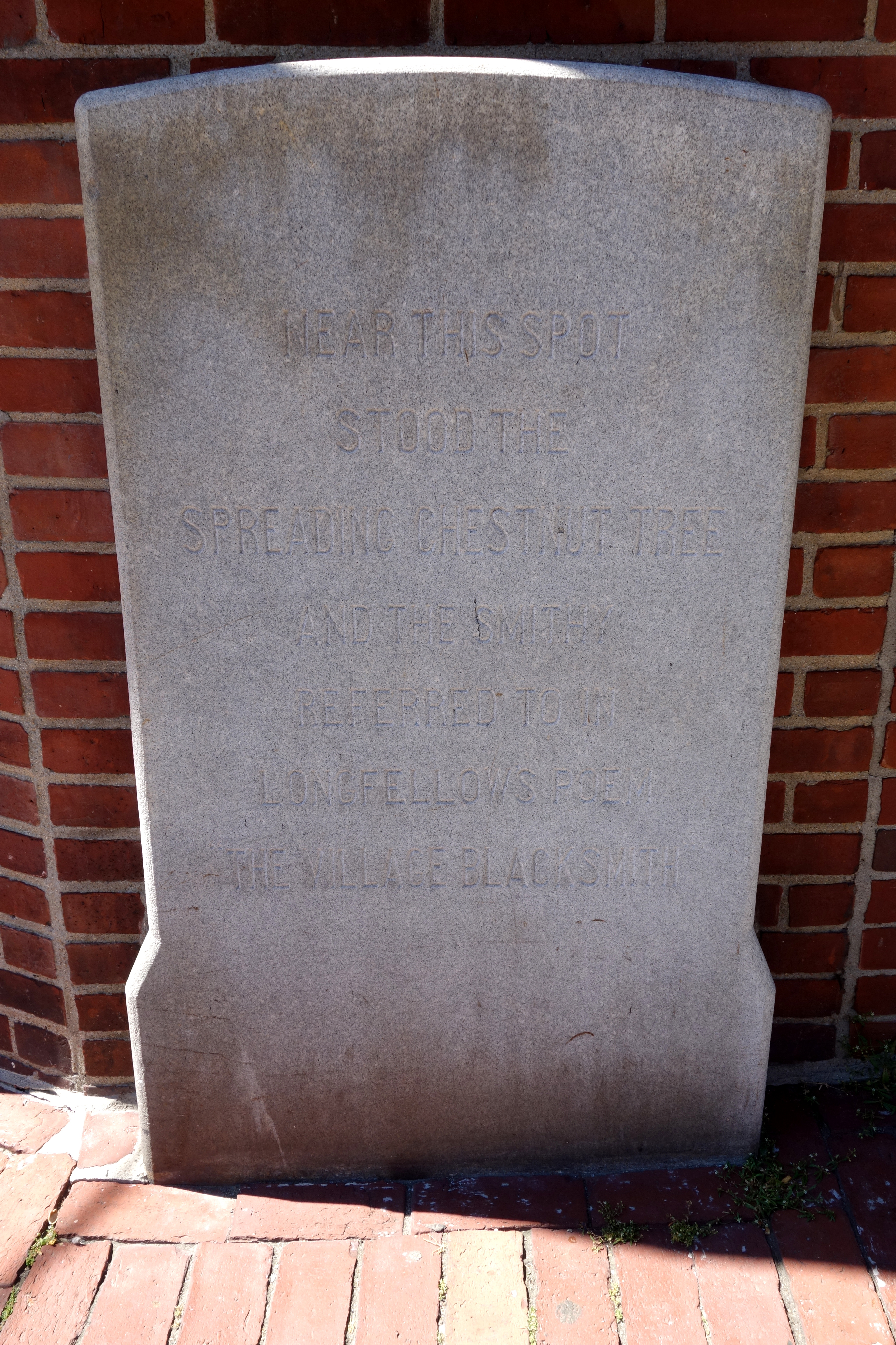 Spreading Chestnut Tree marker - Cambridge, Massachusetts, USA.